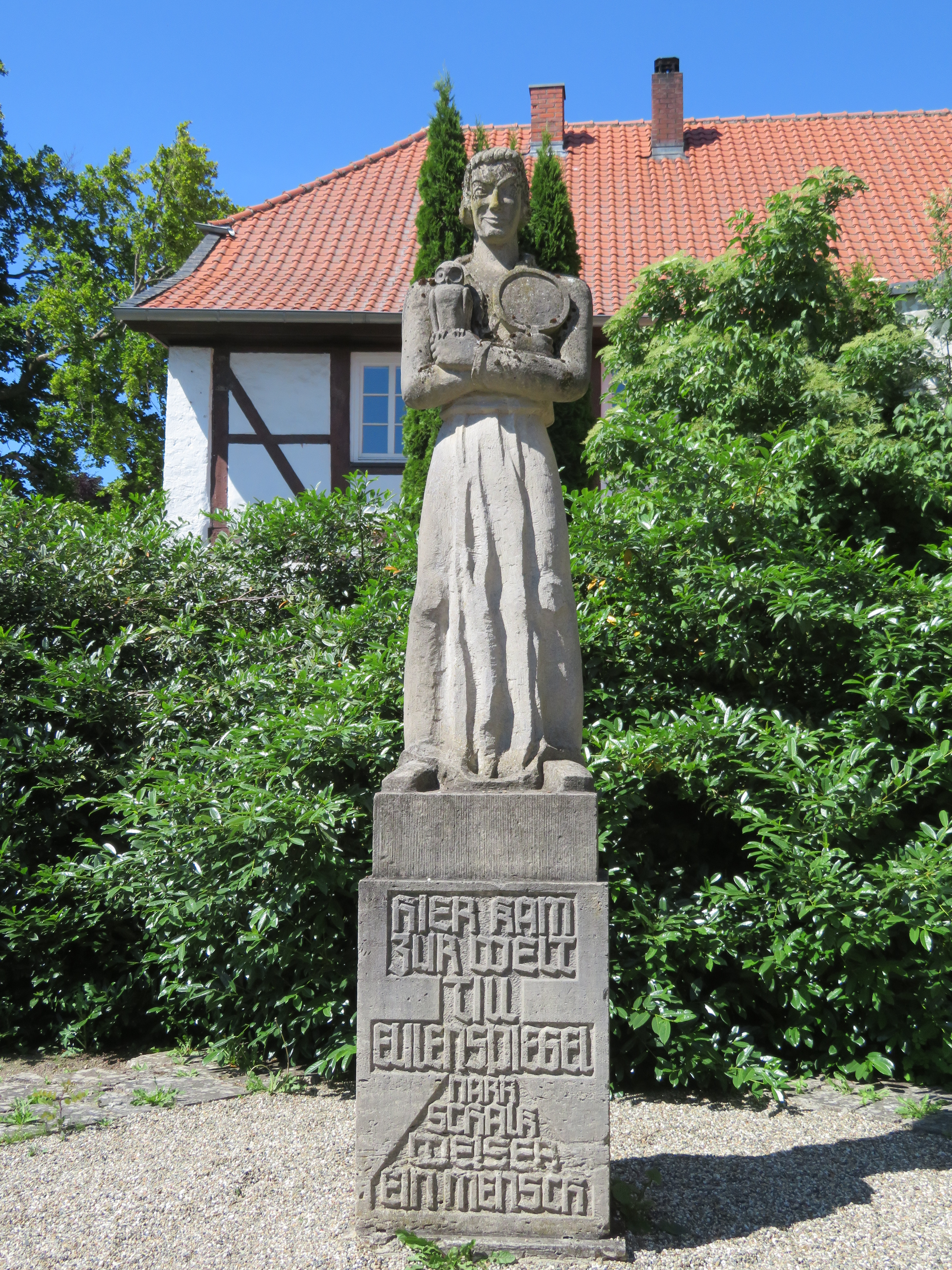 Eulenspiegel Memorial, Kneitlingen, Lower Saxony, Germany